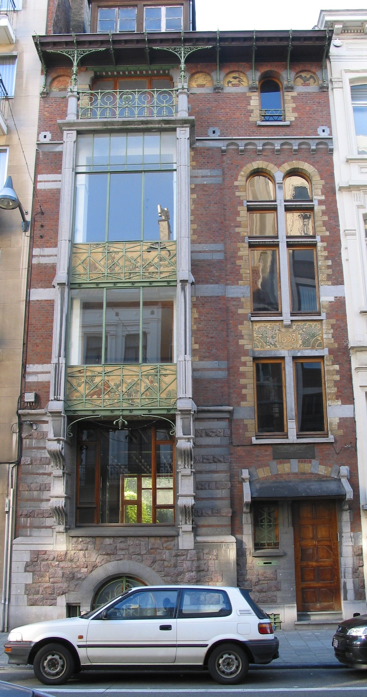 Saint-Gilles (Belgium), rue Defaqz 71, the façade of the Hankar hotel (1893 - Architect: Paul Hankar).